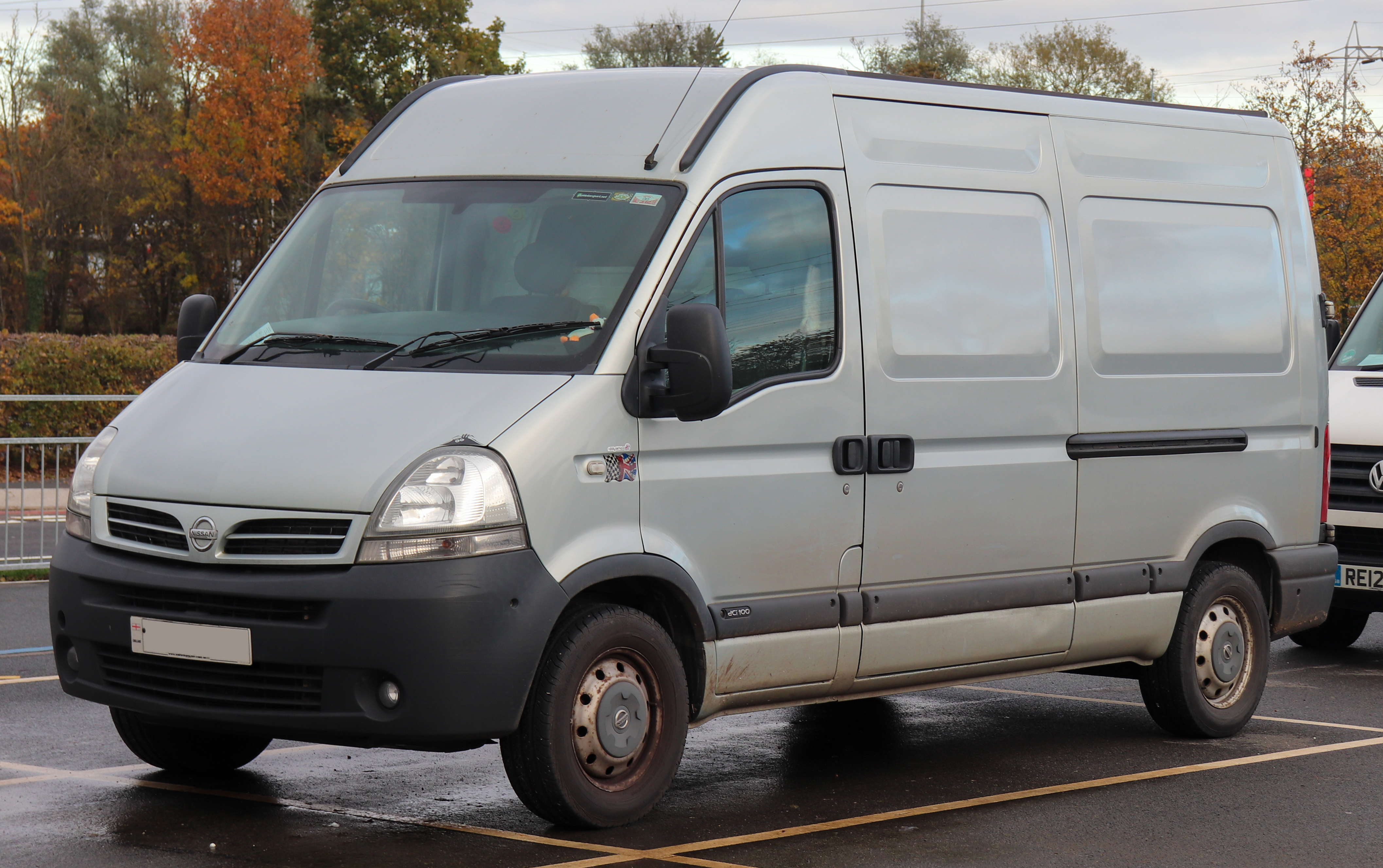 2007 Nissan Interstar 100 SE MWB 2.5 Front Taken in the NEC Car Park, Birmingham